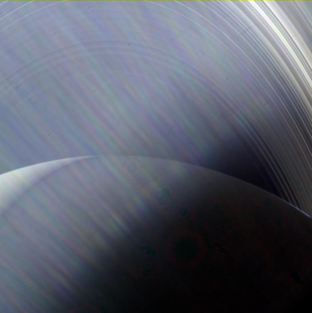 In this image, NASA's Cassini sees Saturn and its rings through a haze of Sun glare on the camera lens. If you could travel to Saturn in person and look out the window of your spacecraft when the Sun was at a certain angle, you might see a view very similar to this one. Images taken using red, green and blue spectral filters were combined to show the scene in natural color. The images were taken with Cassini's wide-angle camera on June 23, 2013, at a distance of approximately 491,200 miles (790,500 kilometers) from Saturn. The Cassini spacecraft ended its mission on Sept. 15, 2017. The Cassini mission is a cooperative project of NASA, ESA (the European Space Agency) and the Italian Space Agency. The Jet Propulsion Laboratory, a division of Caltech in Pasadena, manages the mission for NASA's Science Mission Directorate, Washington. The Cassini orbiter and its two onboard cameras were designed, developed and assembled at JPL. The imaging operations center is based at the Space Science Institute in Boulder, Colorado. For more information about the Cassini-Huygens mission visit and The Cassini imaging team homepage is at